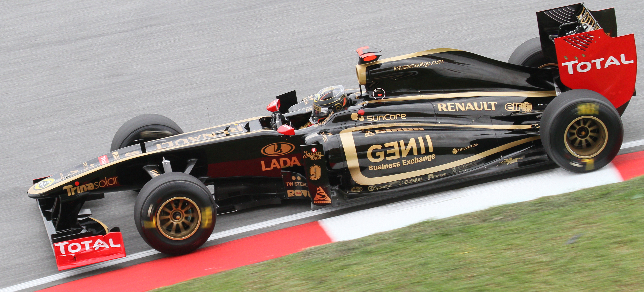 Formula One 2011 Rd.2 Malaysian GP: Nick Heidfeld (Renault) during the first practice session on Friday.